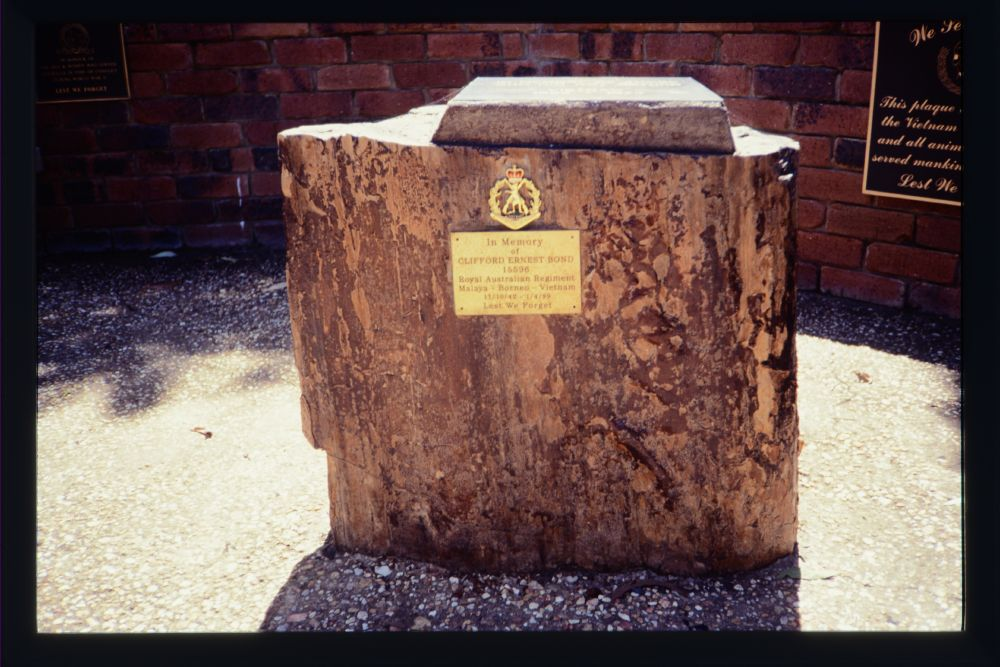 Tieri War Memorial (2006) - rock and plaque for Clifford Ernest Bond